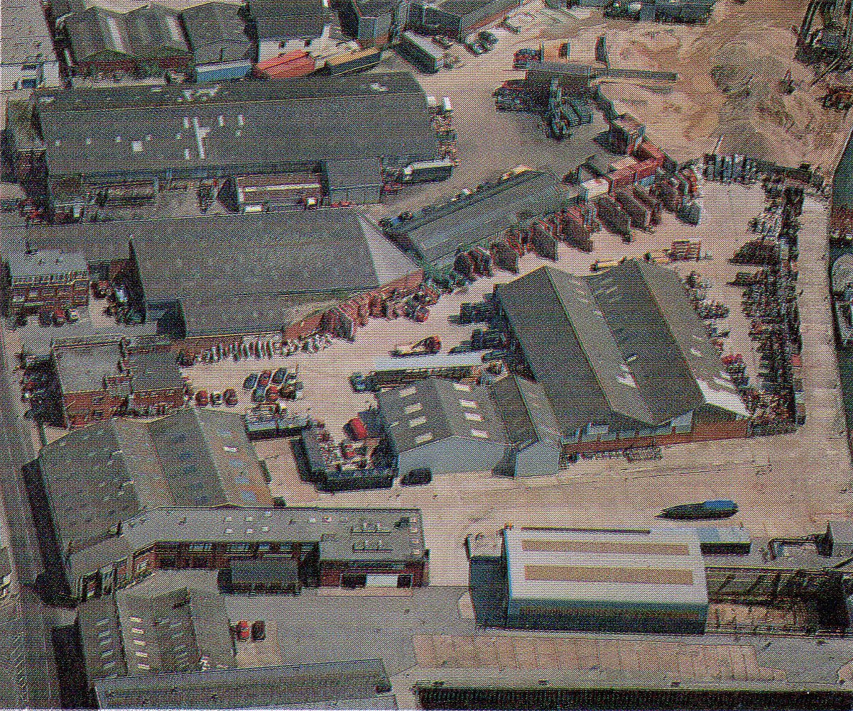 Aerial view of Elliott brothers Millbank site in Southampton